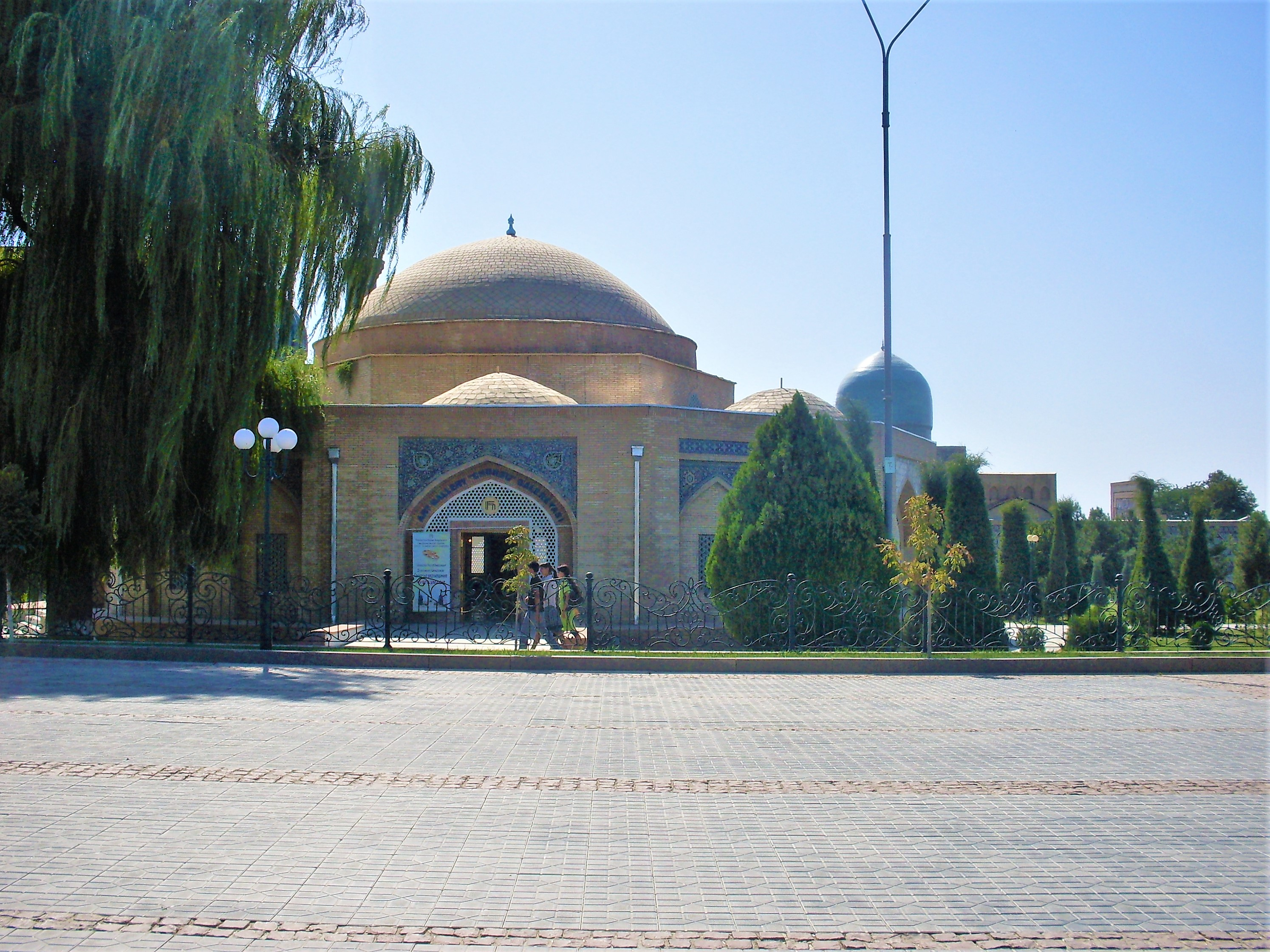 Trading Chorsu. Samarkand, Uzbekistan.